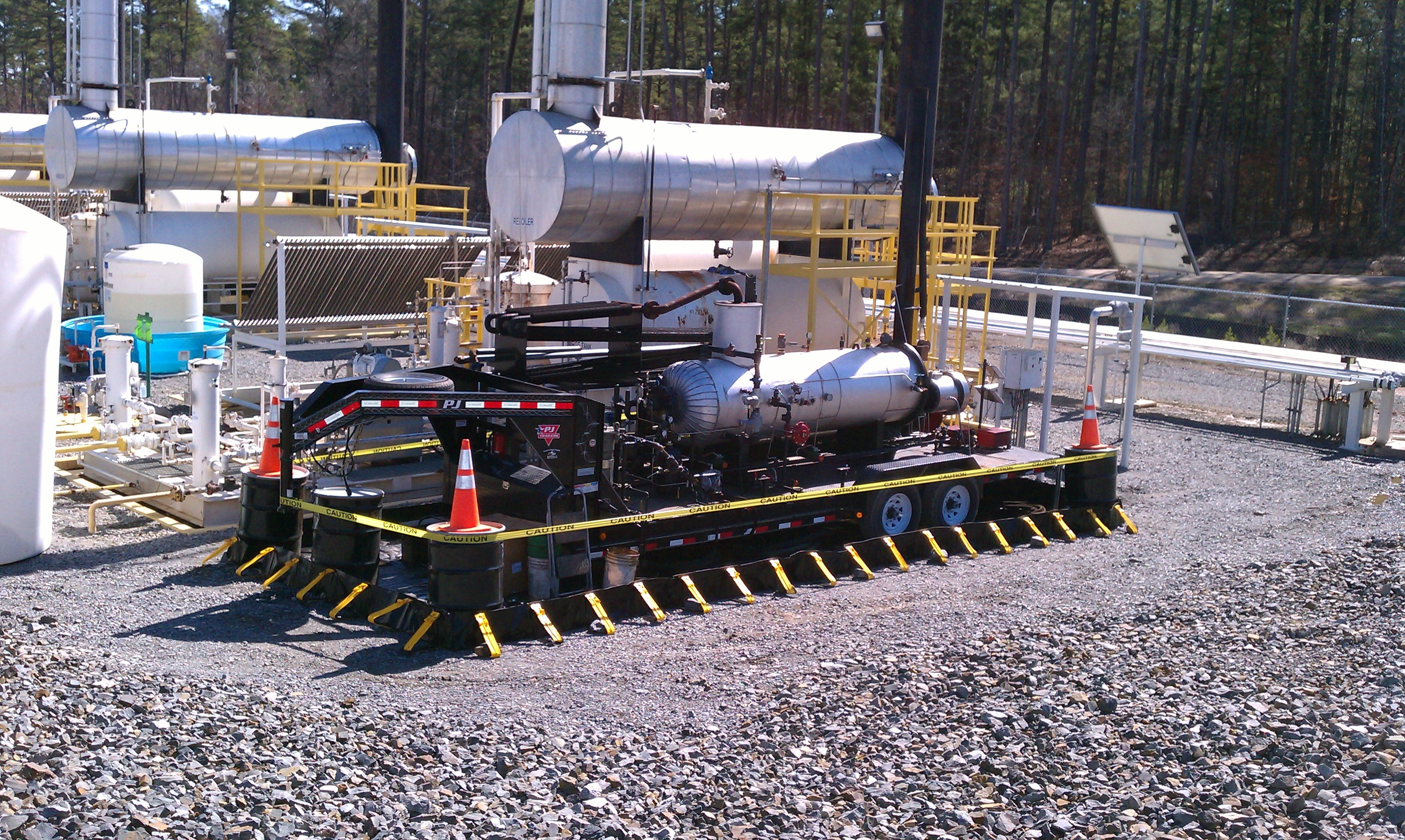 Texas, during a fracking operation